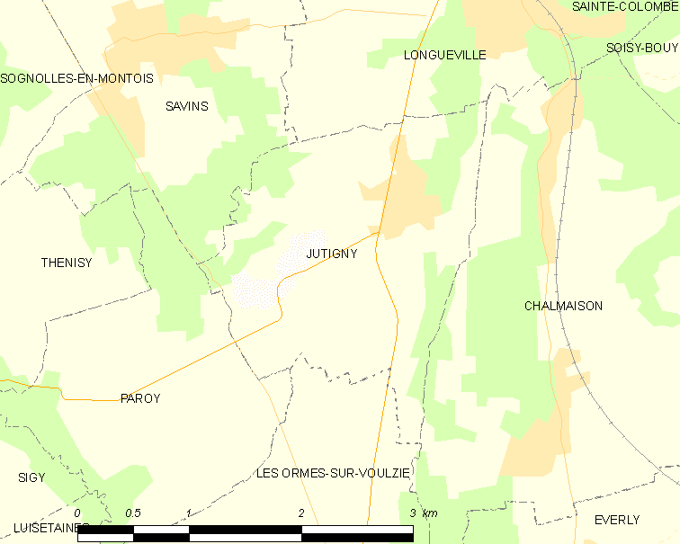 Map of French municipality Jutigny